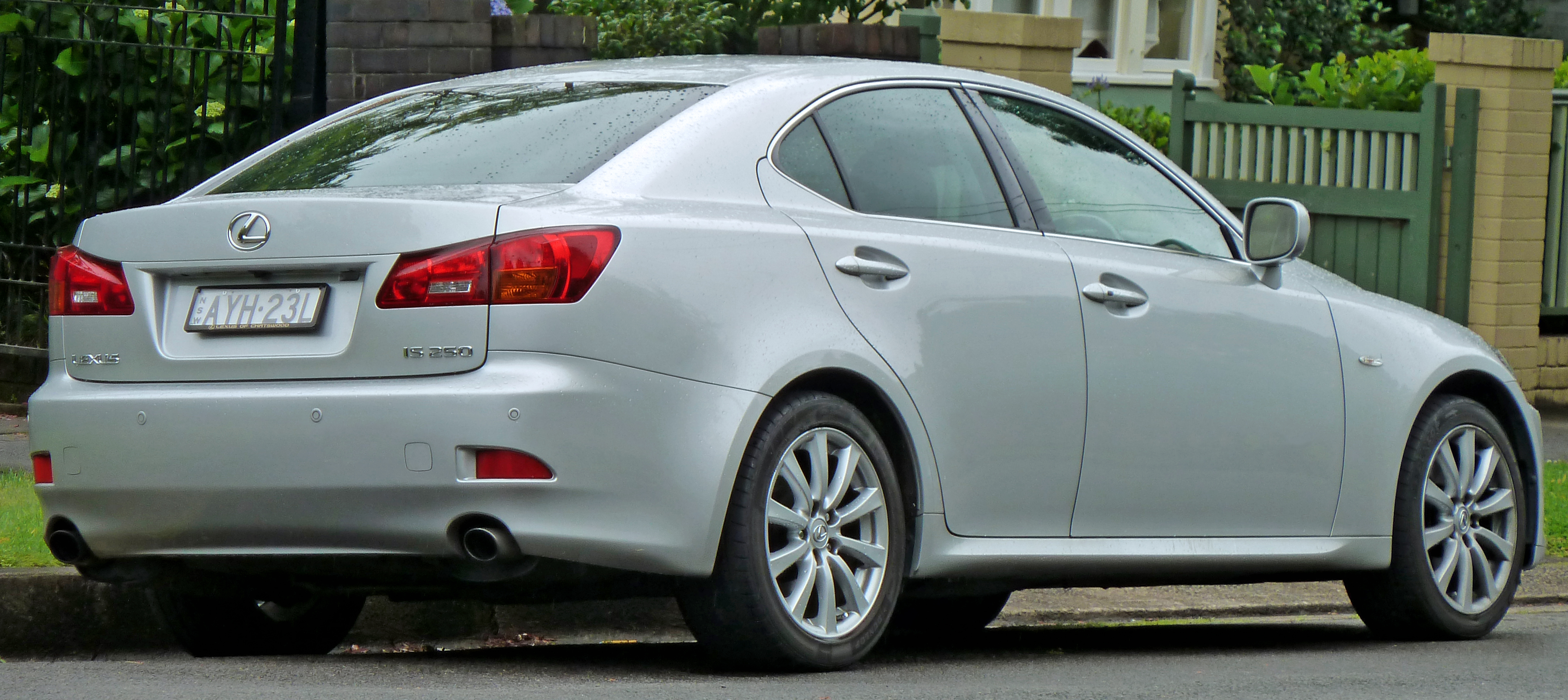 2005–2008 Lexus IS 250 (GSE20R) Sports Luxury sedan. Photographed in Killara, New South Wales, Australia.